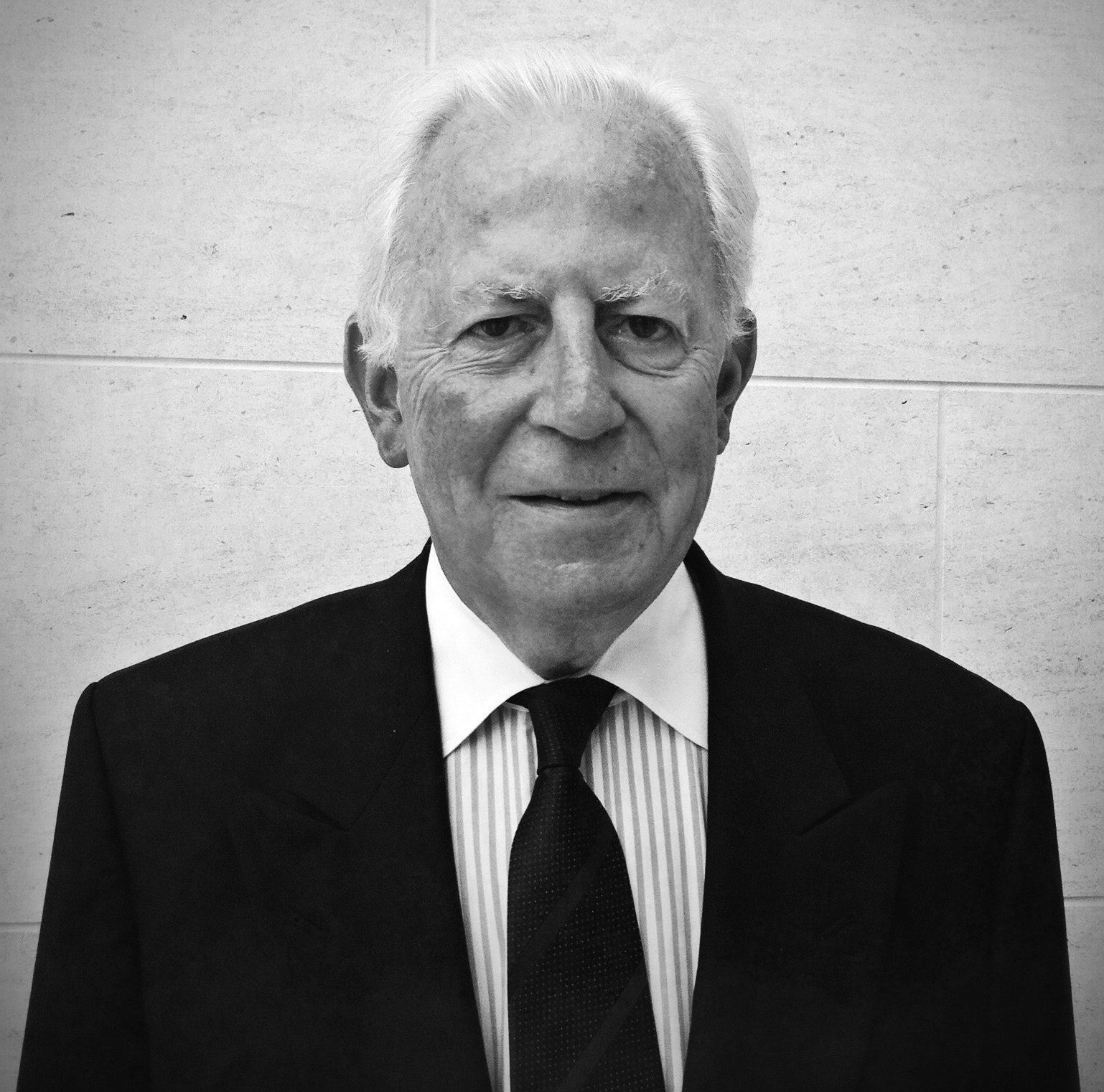 Former Luxembourgish Prime Minister, Jacques Santer